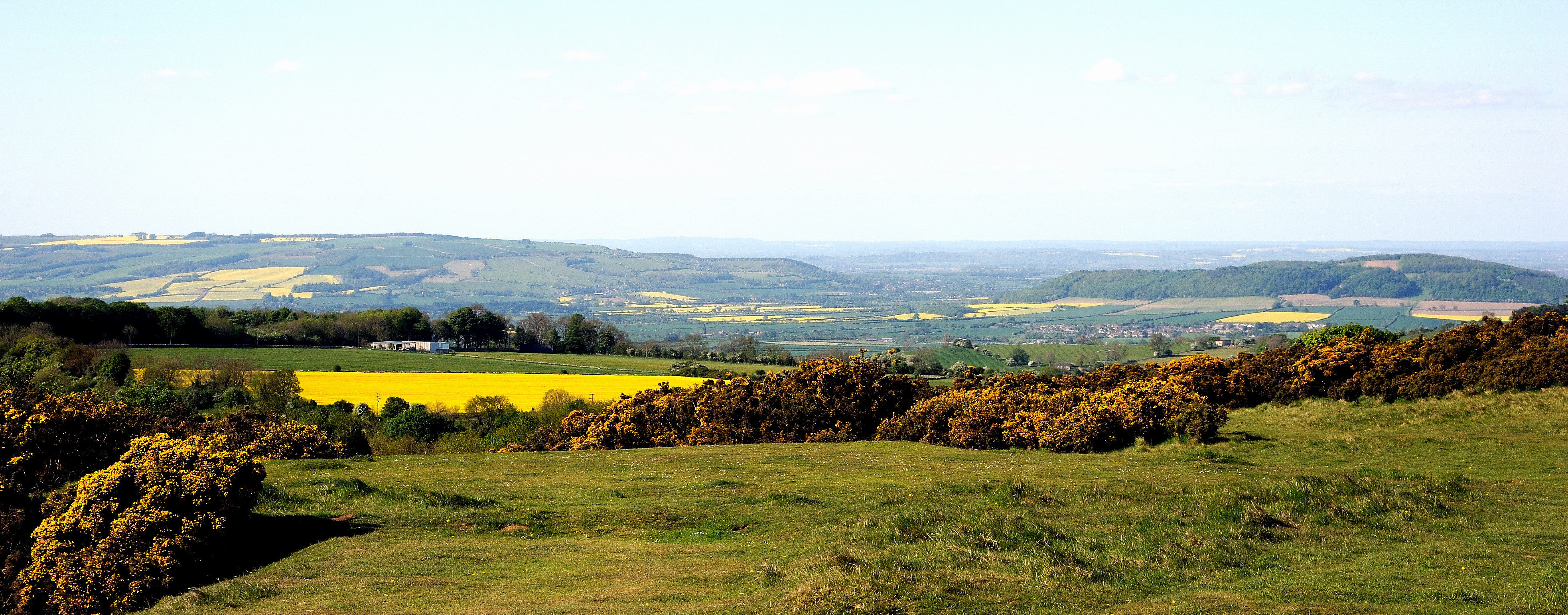 A view from Cleeve Common (near the highest point in the Cotswolds) over villages and the landscape that typifies this part of England, which has been designated as an "Area of Outstanding Natural Beauty".